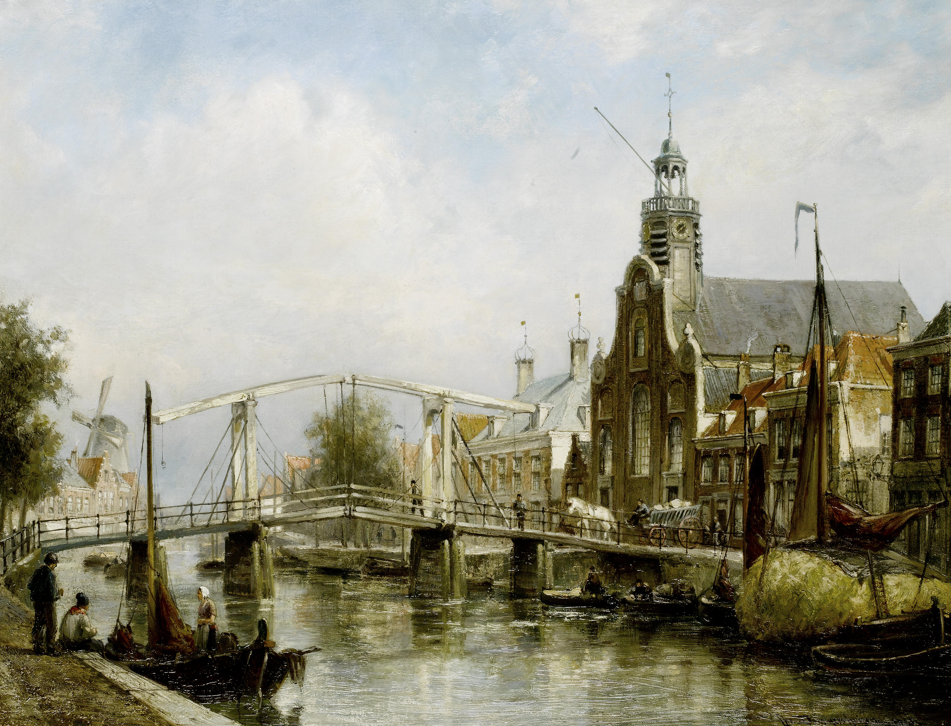 View of the Old or Pelgrimsvaderschurch. Signed and dated Chr. Dommershuizen 1893. Oil on canvas. 52 x 67 cm